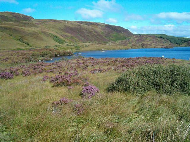 Loch Arail. A view taken in late-summer, heather-clad glory.